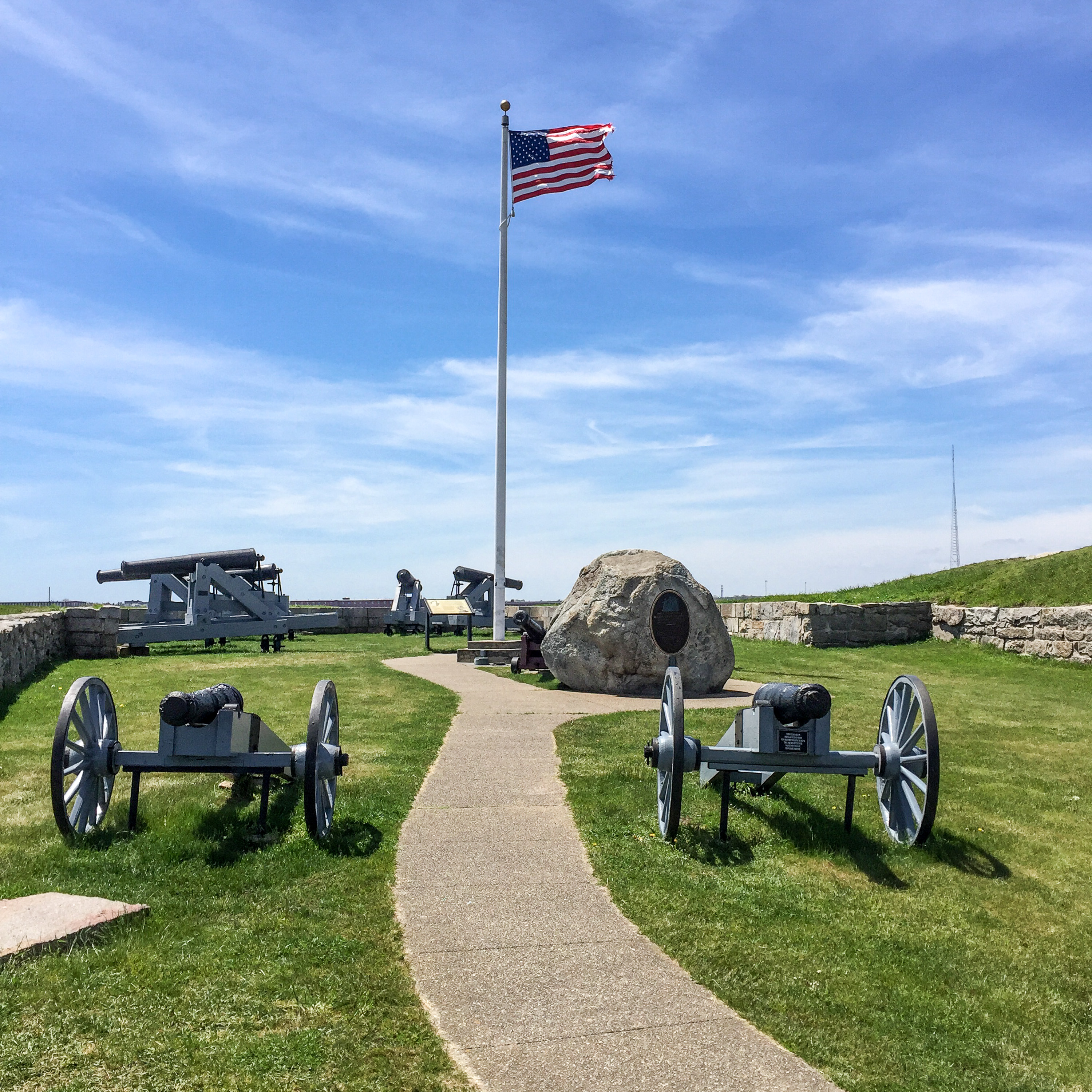 Fort Phoenix State reservation Fairhaven, Massachusetts. NRHP 72000120.